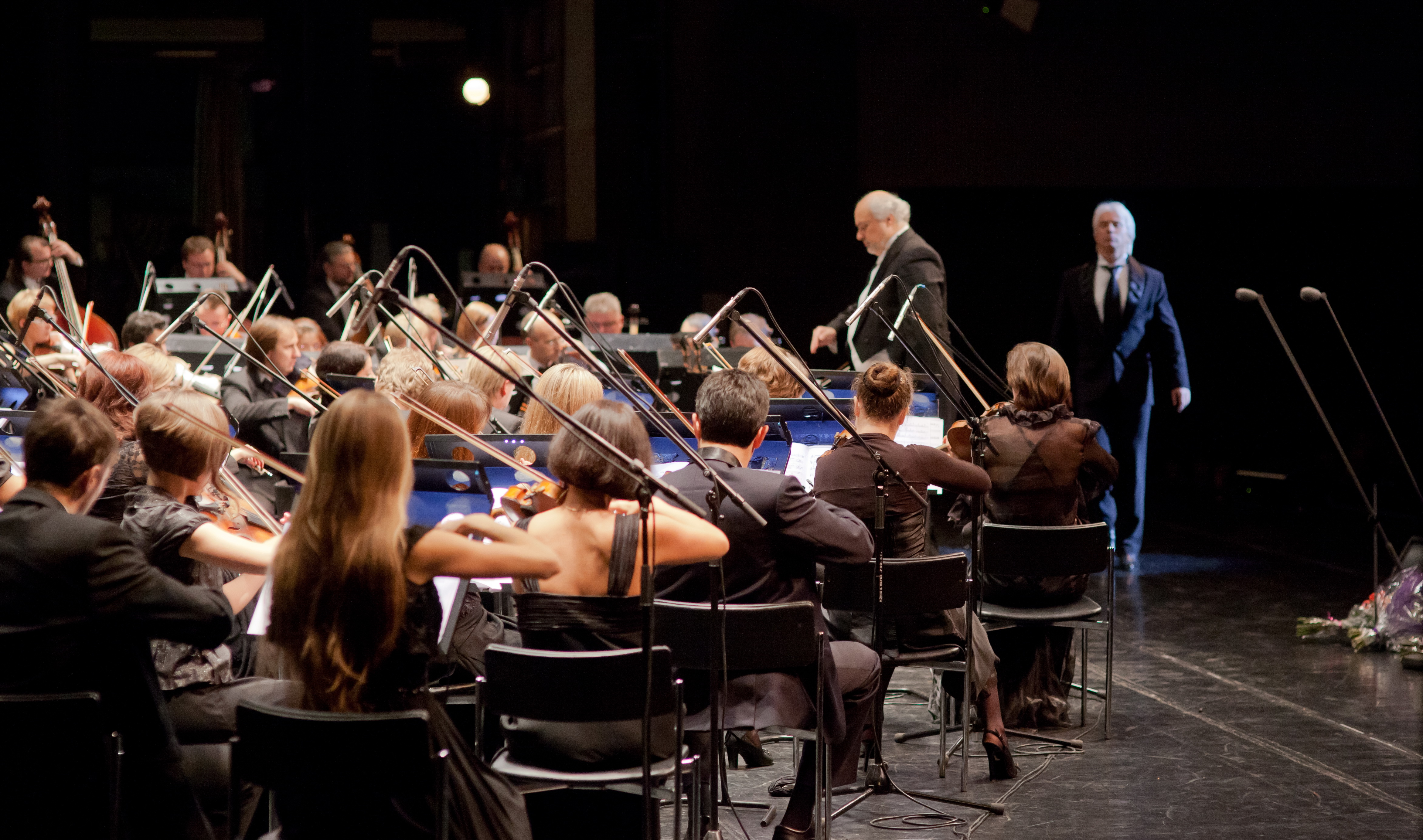 D.Hvorostovsky with Baltic S.O.